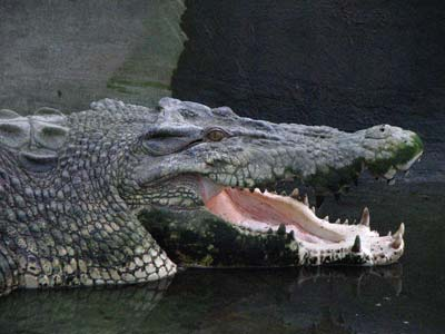 Pangil, the biggest, largest and oldest crocodile at the Crocodile Park, Davao City, Philippines